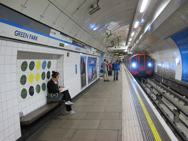 Green Park tube station, Victoria Line